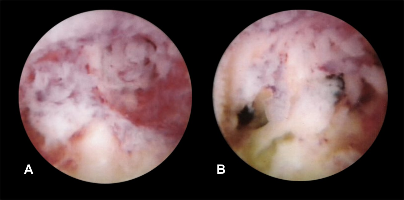 Hysteroscopic view of Asherman's syndrome A) entrance to the cervix B) adhaesions in the uterine cavity